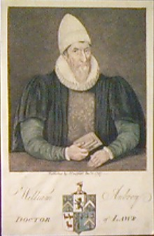 Portrait of William Aubrey (died 1595)